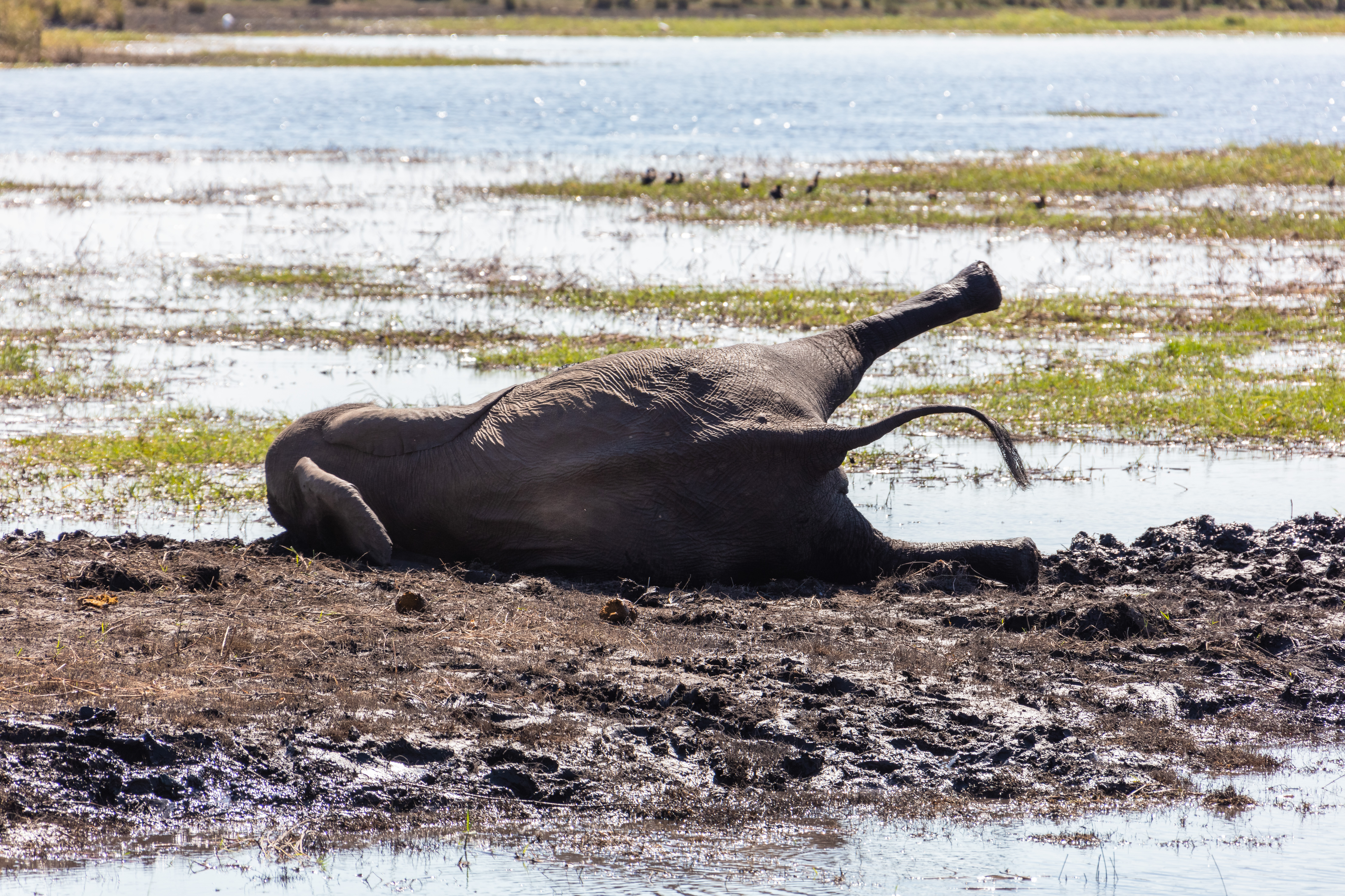 African bush elephant (Loxodonta africana), Chobe National Park, Botsuana